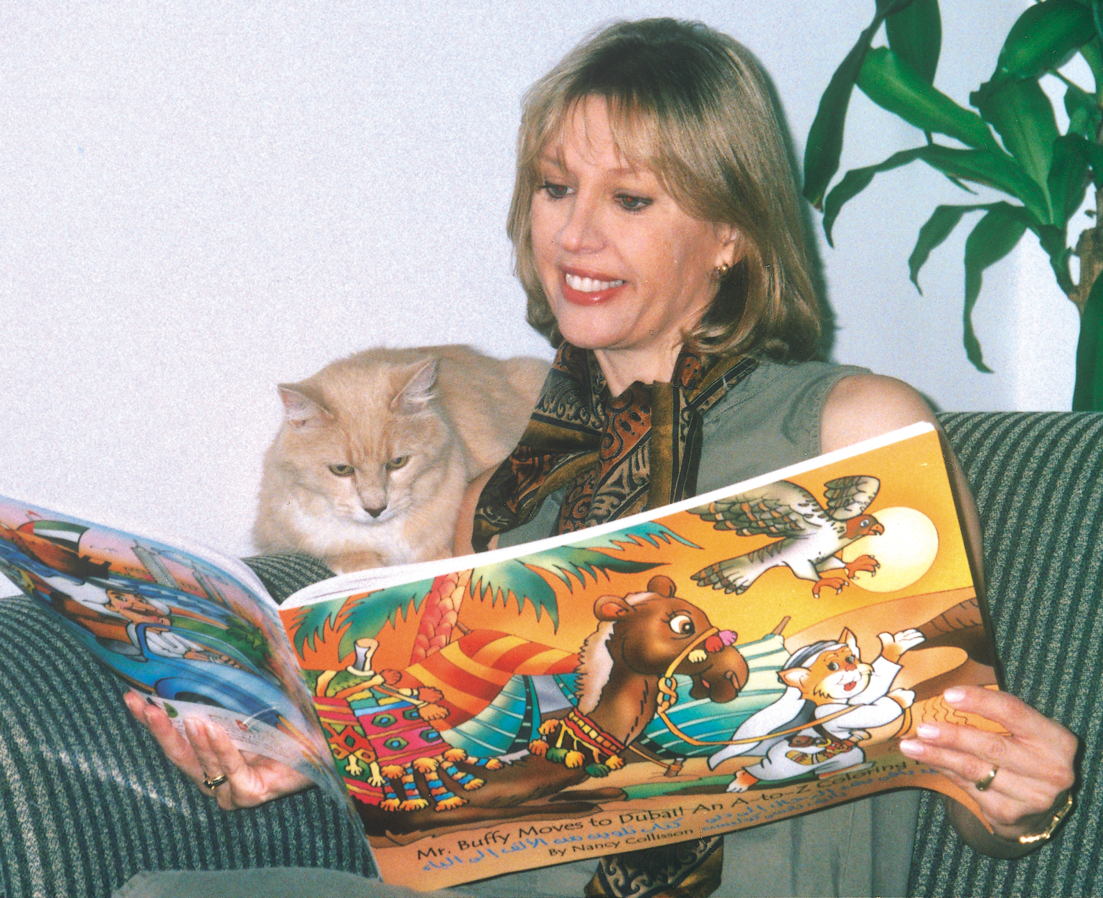 Nancy Collisson, author of the Mr. Buffy children's book series, reading the book "Mr. Buffy Moves to Dubai, An A-to-Z Coloring Book" while the real Mr. Buffy looks over her shoulder.